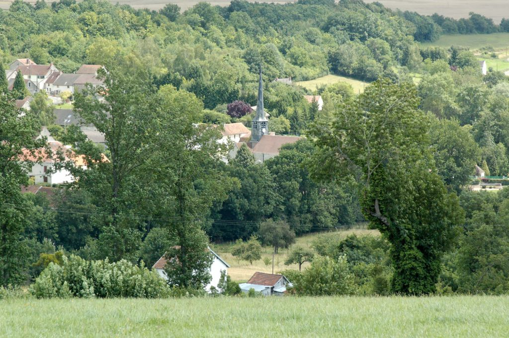 Pargy la Dhuys view